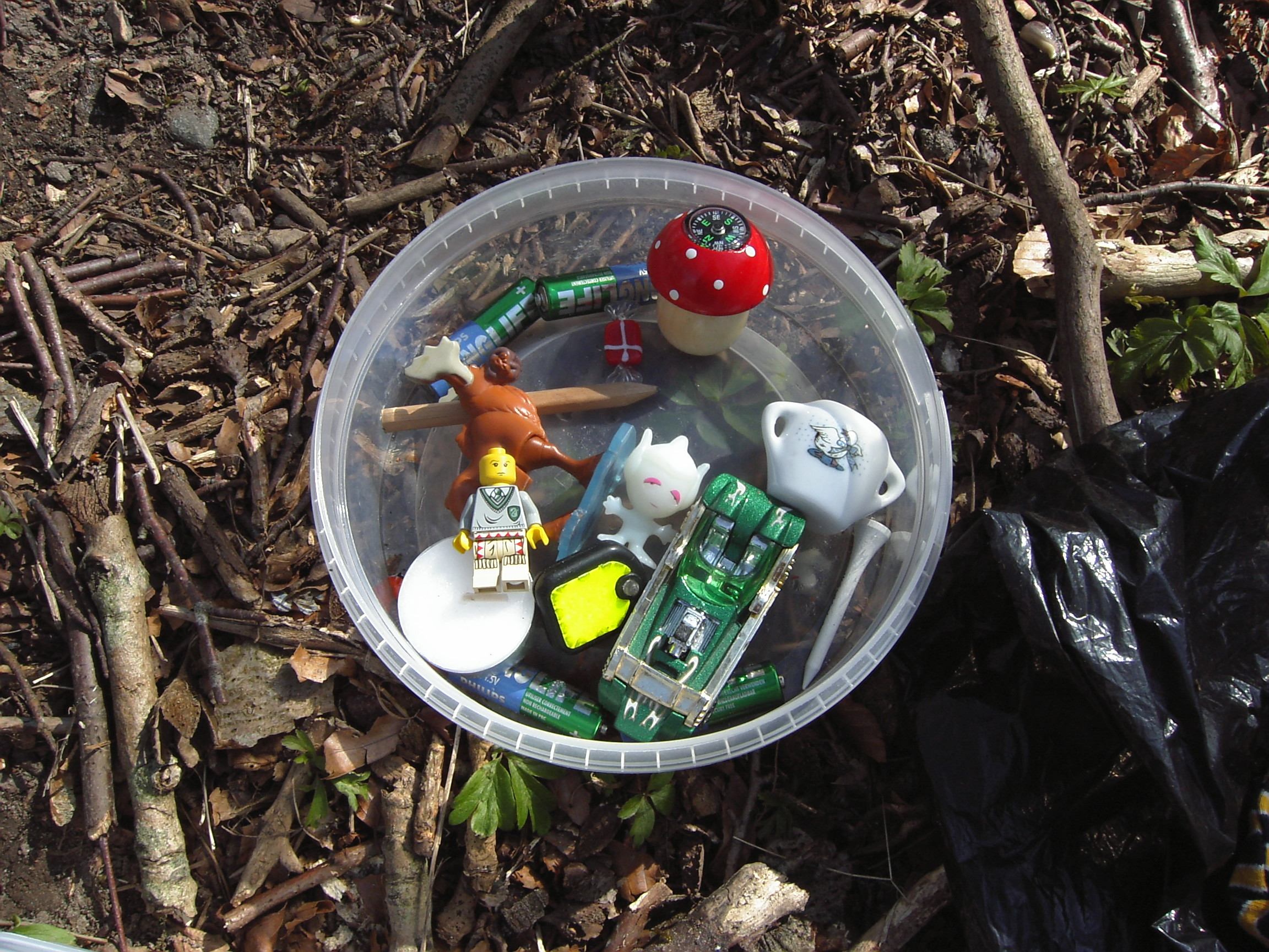 Geocache "treasure"